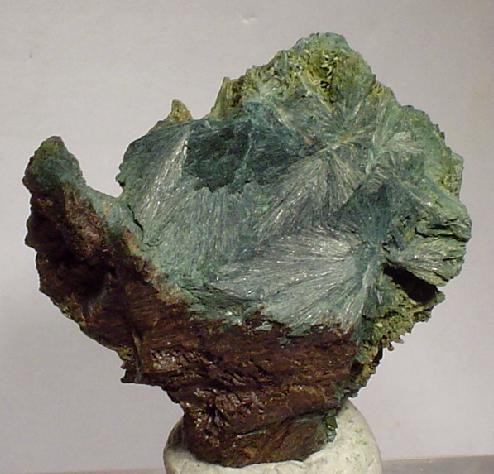 Gormanite Locality: Linópolis, Divino das Laranjeiras, Doce valley, Minas Gerais, Southeast Region, Brazil (Locality at ) Size: 4.2 x 4.2 x 3.0 cm. Gormanite is an ULTRA-RARE phosphate. Most crystals are small and are usually associated with the Yukon, Canada Type Localities - Rapid Creek and Big Fish River. This EXCELLENT and sculptural specimen consists of LARGE, lustrous, deep sea-green, radiating clusters of acicular crystals RICHLY dispersed in a contrasting chocolate-brown matrix. This SUPER piece is from a small and recent find near Linopolis, Brazil.